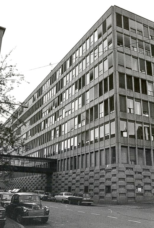 Burmeister & Wain, administration building Knippelsbrogade, Copenhagen. Picture taken 8 june 1976